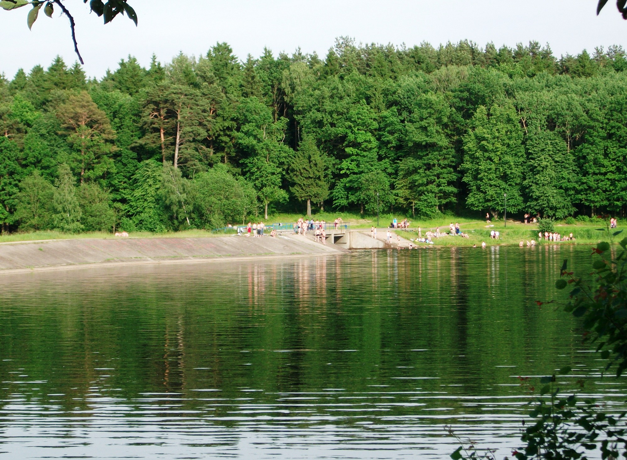 Drazdy Reservoir